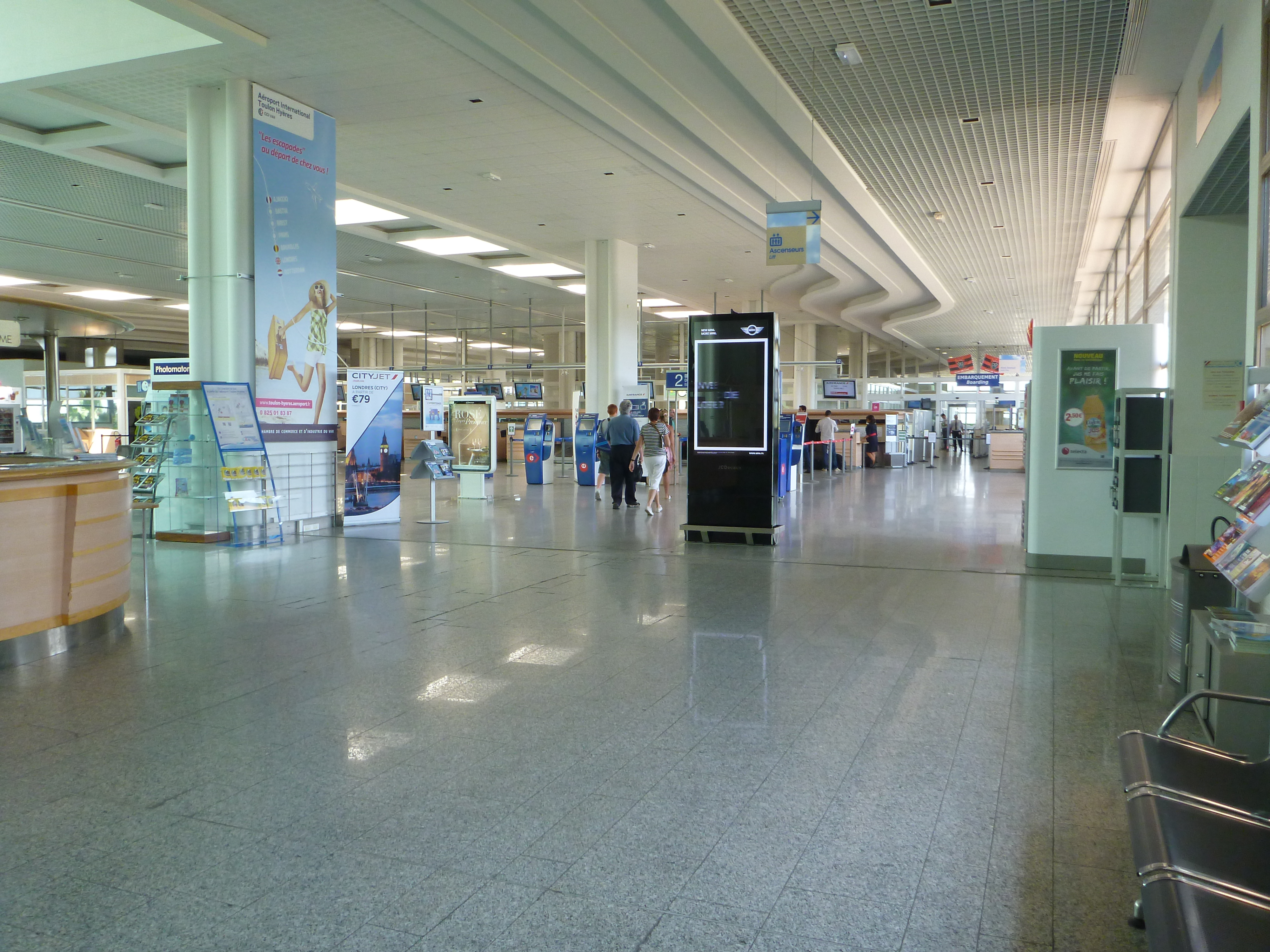 Depature area on the civil part of the aéroport de Toulon-Hyères